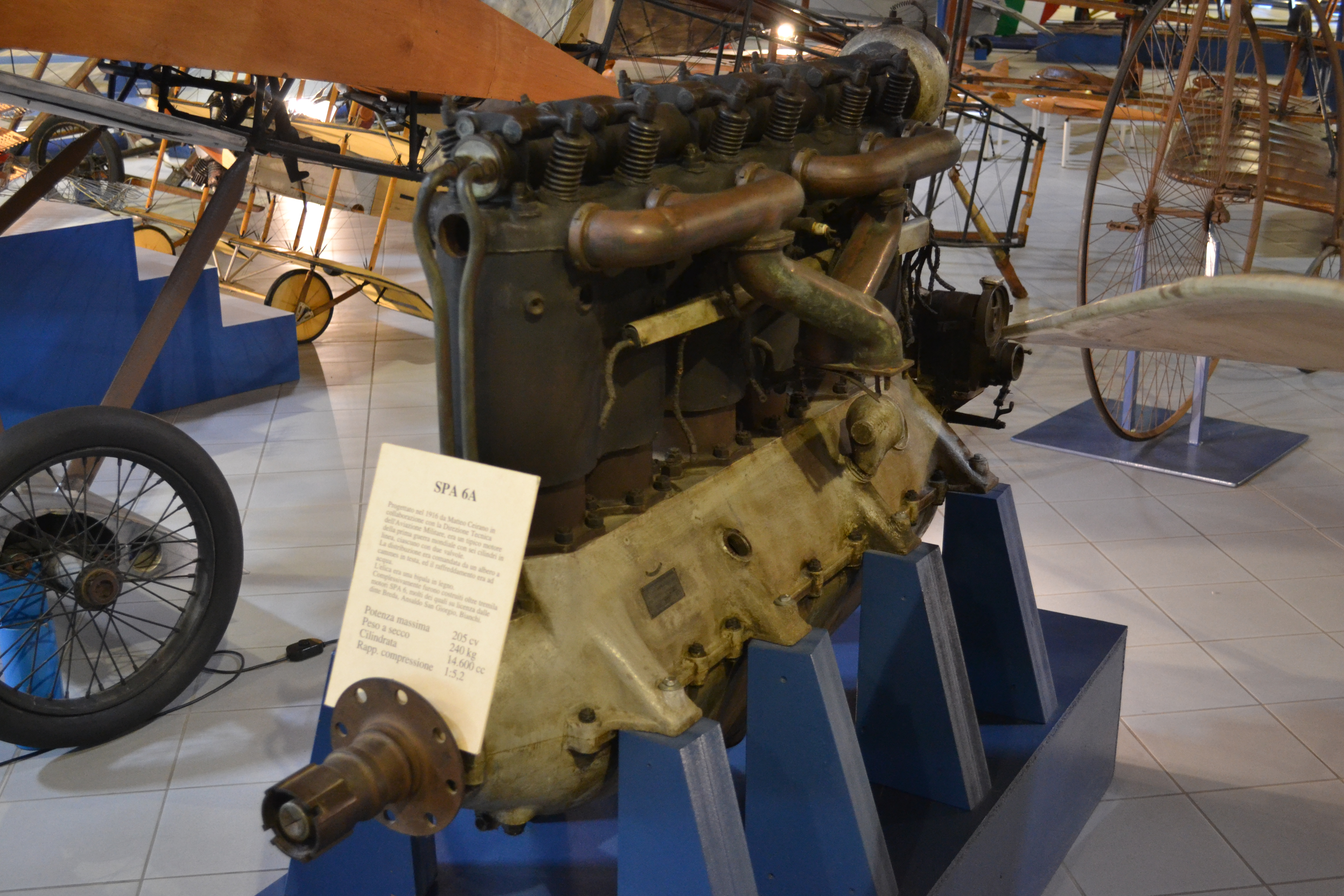 A SPA 6A 6-cylinder inline engine from WWI on display at the Gianni Caproni Museum of Aeronautics.